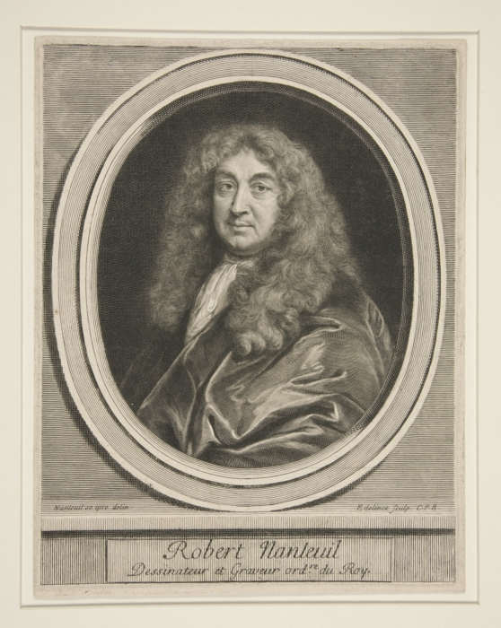 "Robert Nanteuil," engraving, 9 13/16 in. x 7 11/16 in., by the Flemish artist Gerard Edelinck. Yale University Art Gallery, gift of Edward B. Greene, B.A. 1900. Courtesy of Yale University, New Haven, Conn.